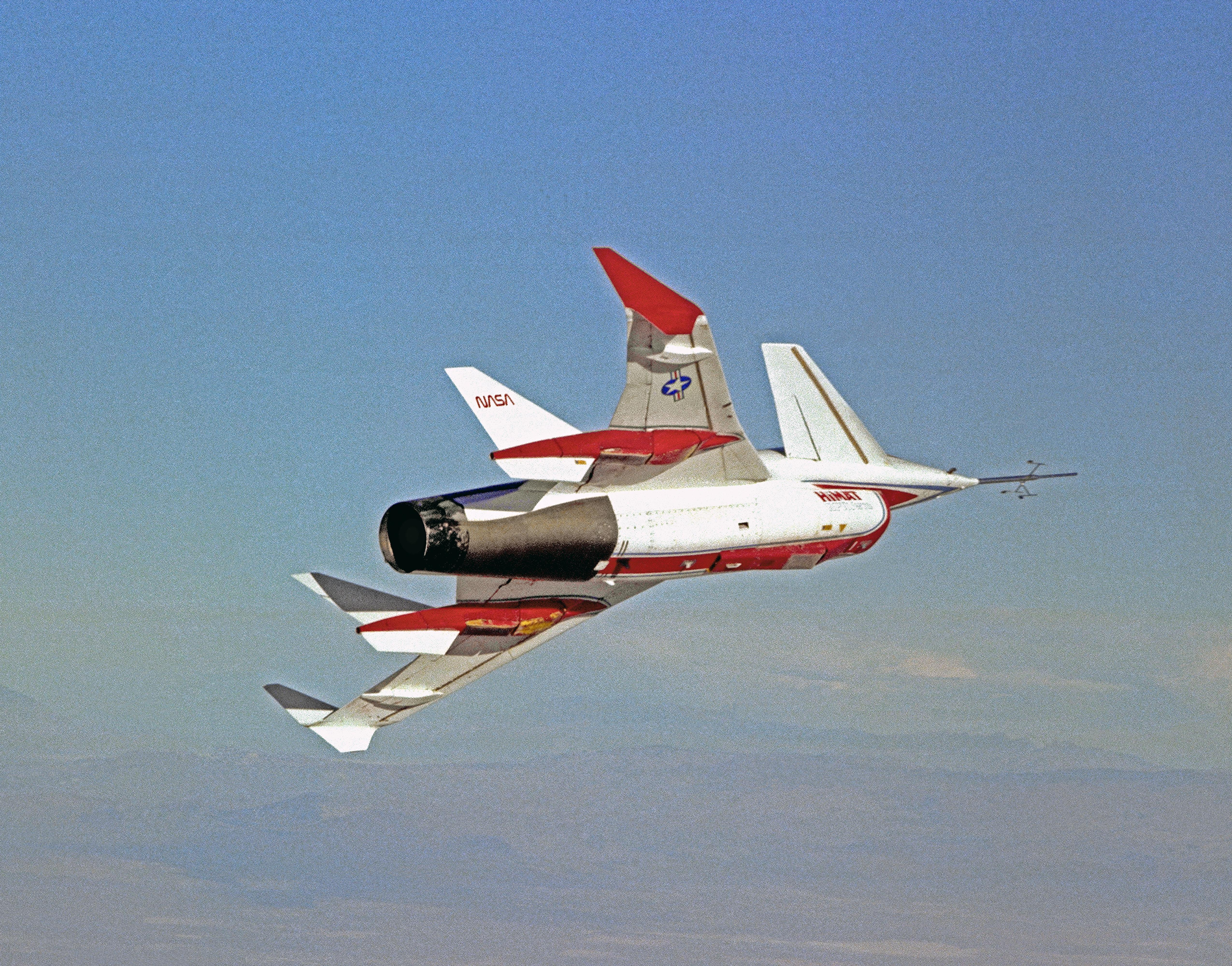 The HiMAT (Highly Maneuverable Aircraft Technology) subscale research vehicle, seen here during a research flight, was flown by the NASA Dryden Flight Research Center, Edwards, California, from mid 1979 to January 1983. The aircraft demonstrated advanced fighter technologies that have been used in the development of many modern high performance military aircraft. Two vehicles were used in the research program conducted jointly by NASA and the Air Force Flight Dynamics Laboratory, Wright-Patterson AFB, Ohio. The two vehicles, flown a total of 26 times, provided data on the use of composites, aeroelastic tailoring, close-coupled canards and winglets. They investigated the interaction of these then-new technologies upon each other. About one-half the size of a standard manned fighter and powered by a small jet engine, the HiMAT vehicles were launched from NASA's B-52 carrier aircraft at an altitude of about 45,000 feet. They were flown remotely by a NASA research pilot from a ground station with the aid of a television camera mounted in the HiMAT cockpits. Technologies tested on the HiMAT vehicles appearing later on other aircraft include the extensive use of composites common now on military and commercial aircraft; rear-mounted wing and forward canard configuration used very successfully on the X-29 research aircraft flown at Dryden; and winglets, now used on many private and commercial aircraft to lessen wingtip drag and enhance fuel savings.